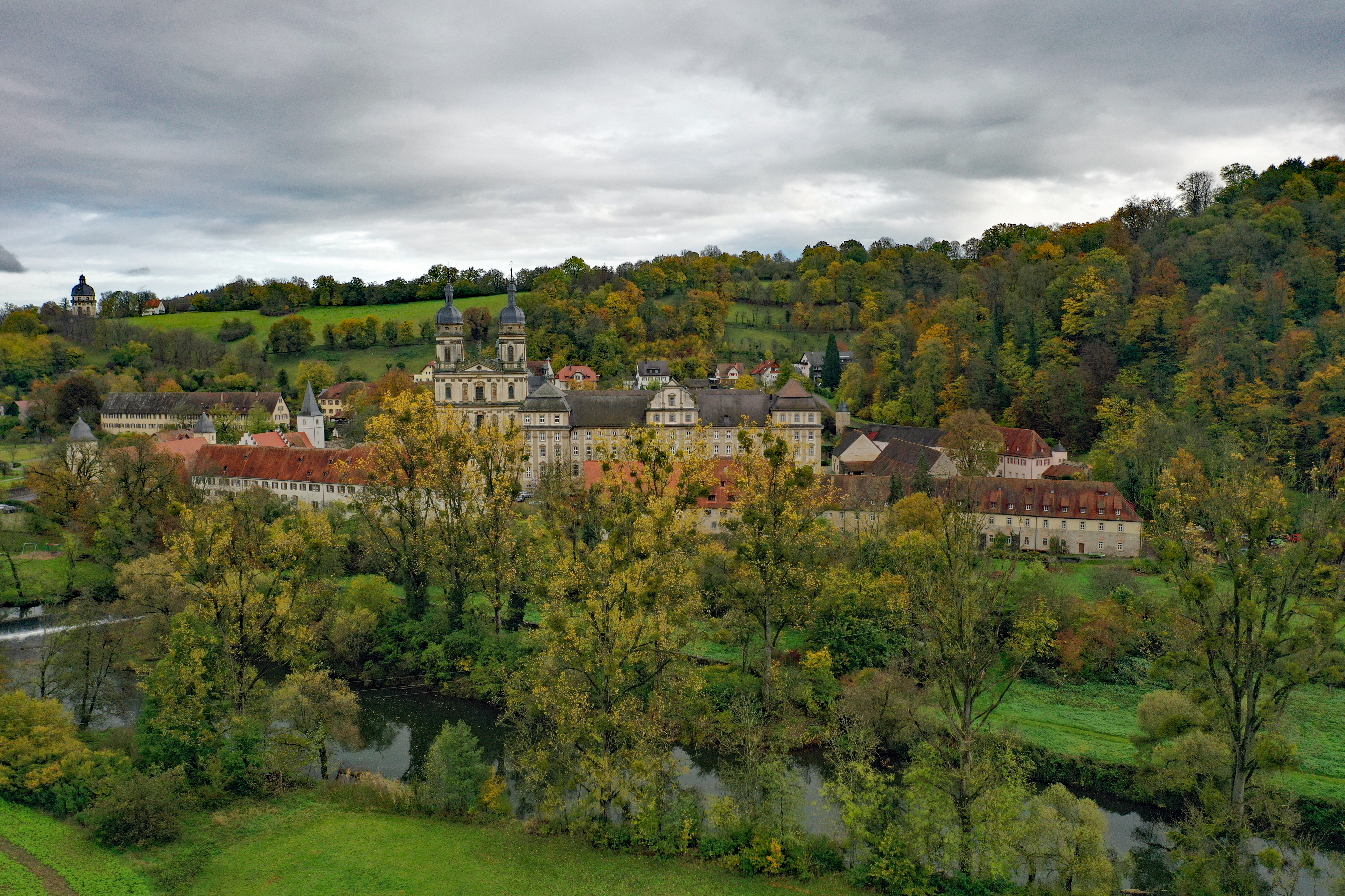 Kloster Schöntal (Schöntal, Hohenlohekreis, Baden-Württemberg, Germany)